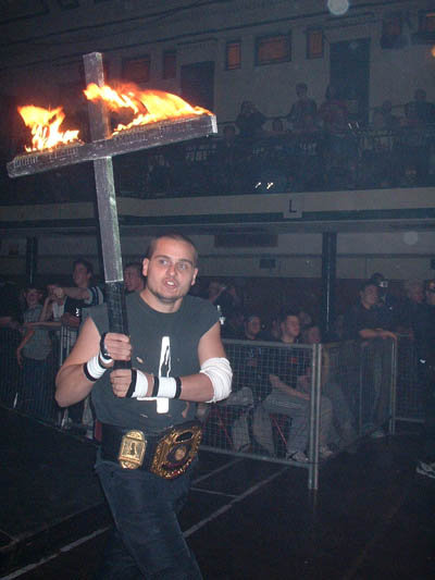 The Family member Paul Travell holdng the FWA Tag Team Championship